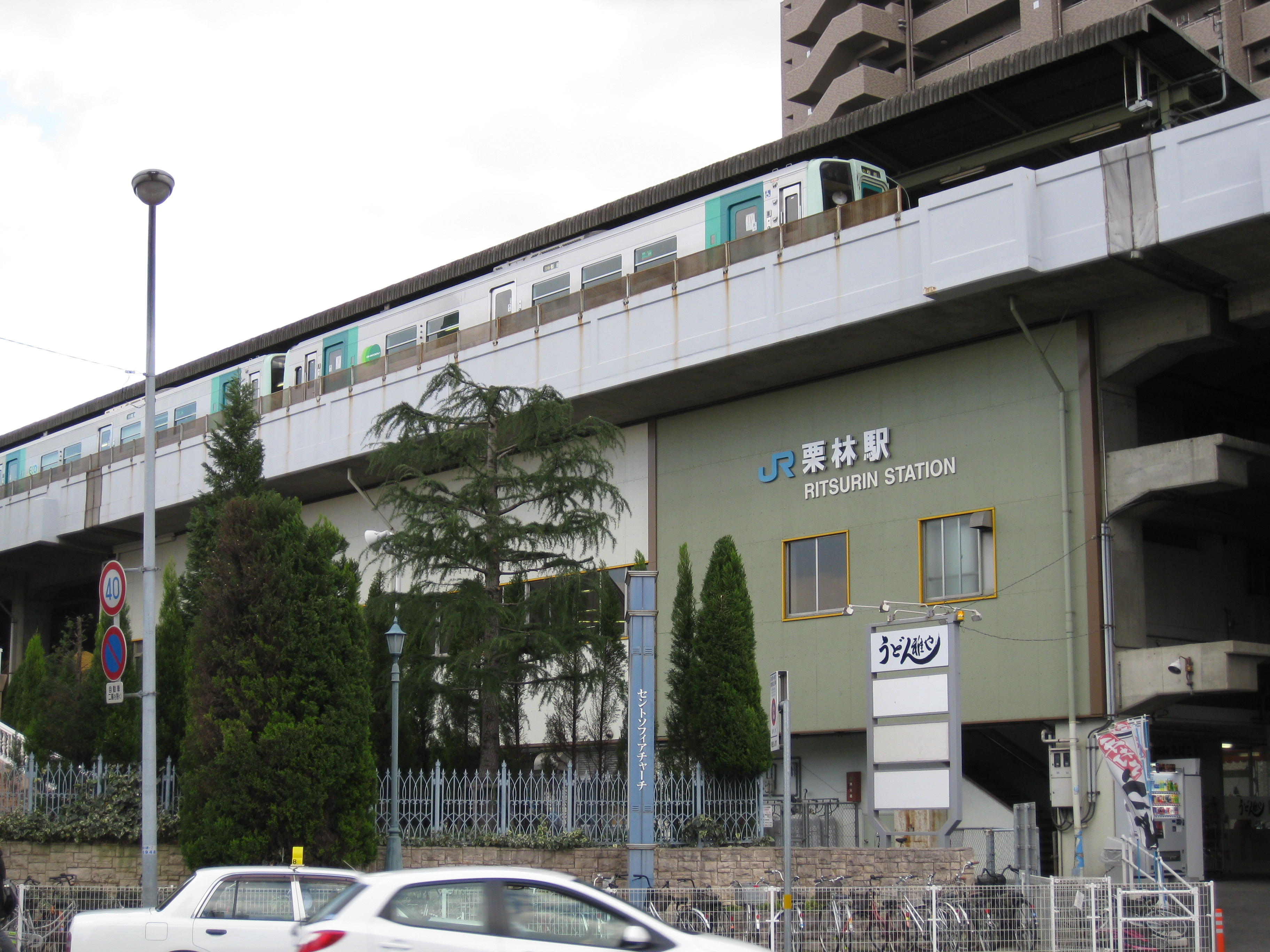 JR Ritsurin Station entrance. Takayama, Kagawa, Japan.